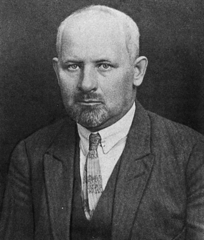 Vaclaw Lastowski